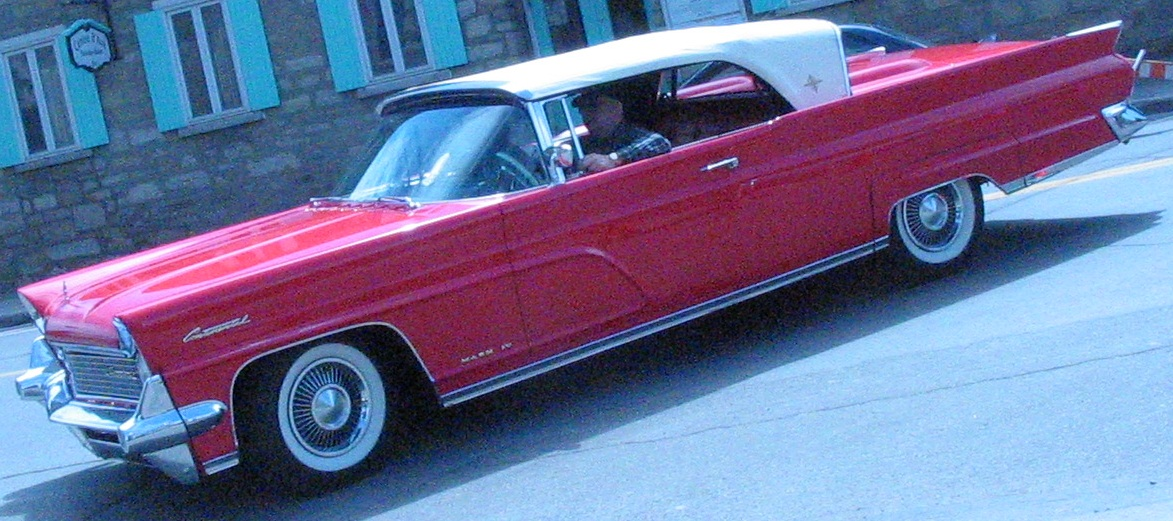 Lincoln Continental Mark IV photographed in Laval, Quebec, Canada at the Auto classique Laval.